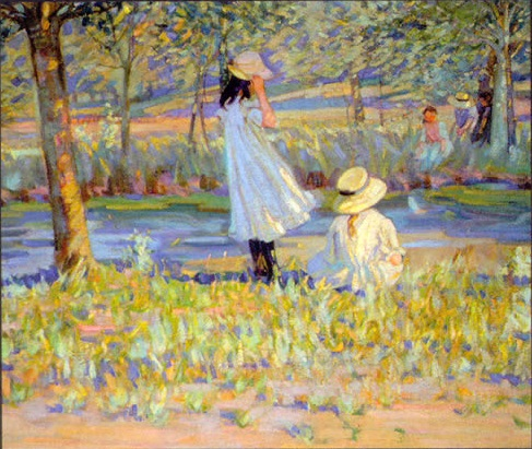 Watching the Boat